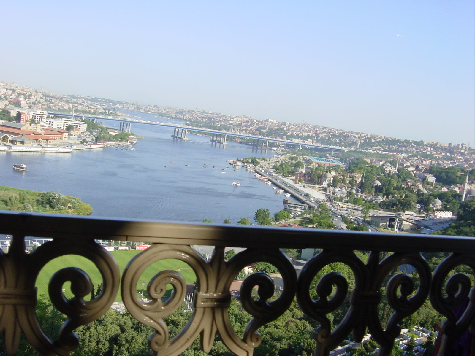 Istanbul - Sight of the Golden Horn from "Café Loti" in Eyüp. Picture by: Giovanni Dall'Orto, May 30 2006.